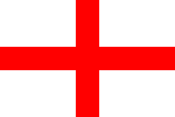 Alessandria's flag; red cross on white background